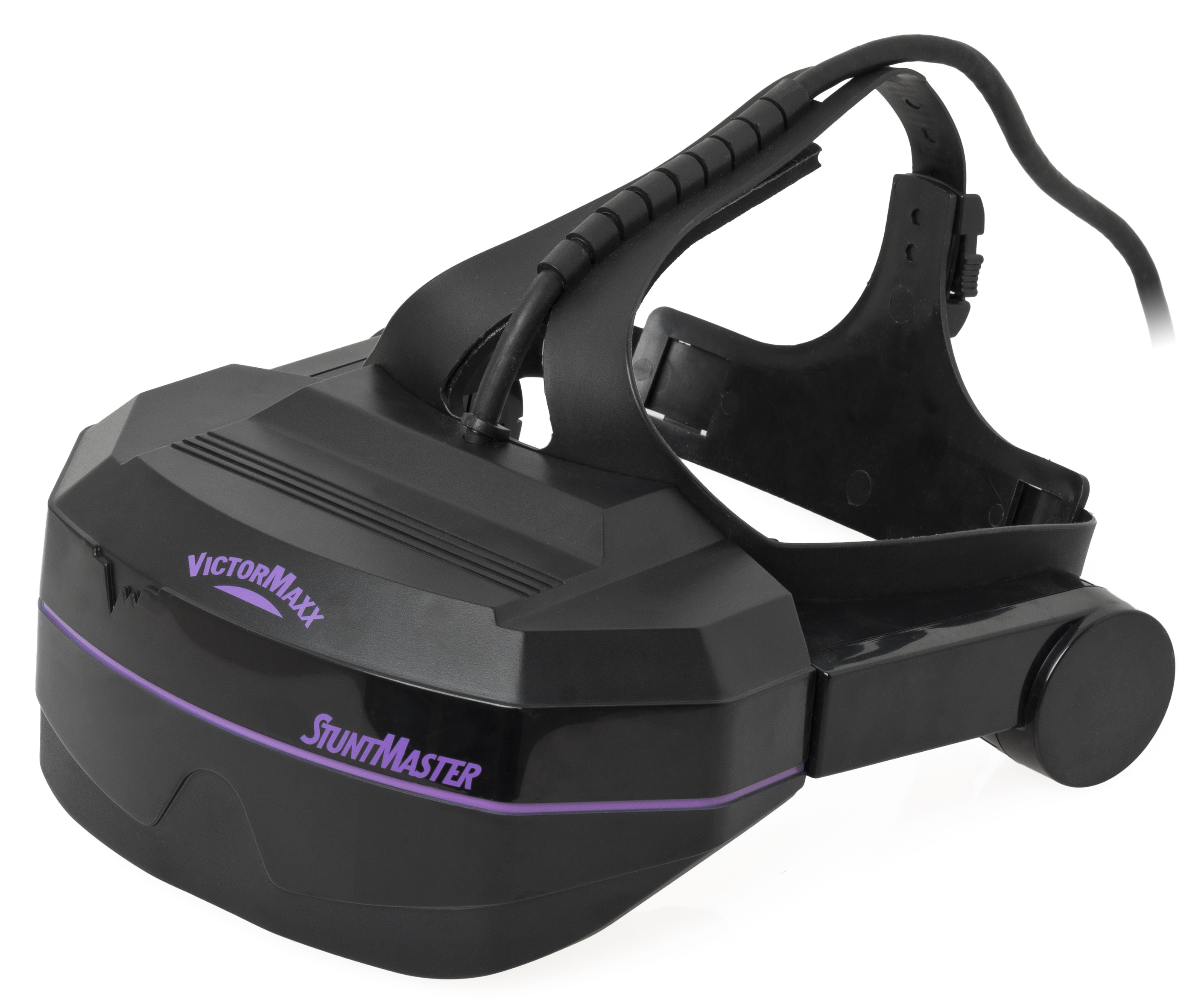 The VictorMaxx Stuntmaster, a faux virtual reality headset with a single low-resolution monitor in the visor. Comes with cables to hook up to either a Super NES or Sega Genesis.